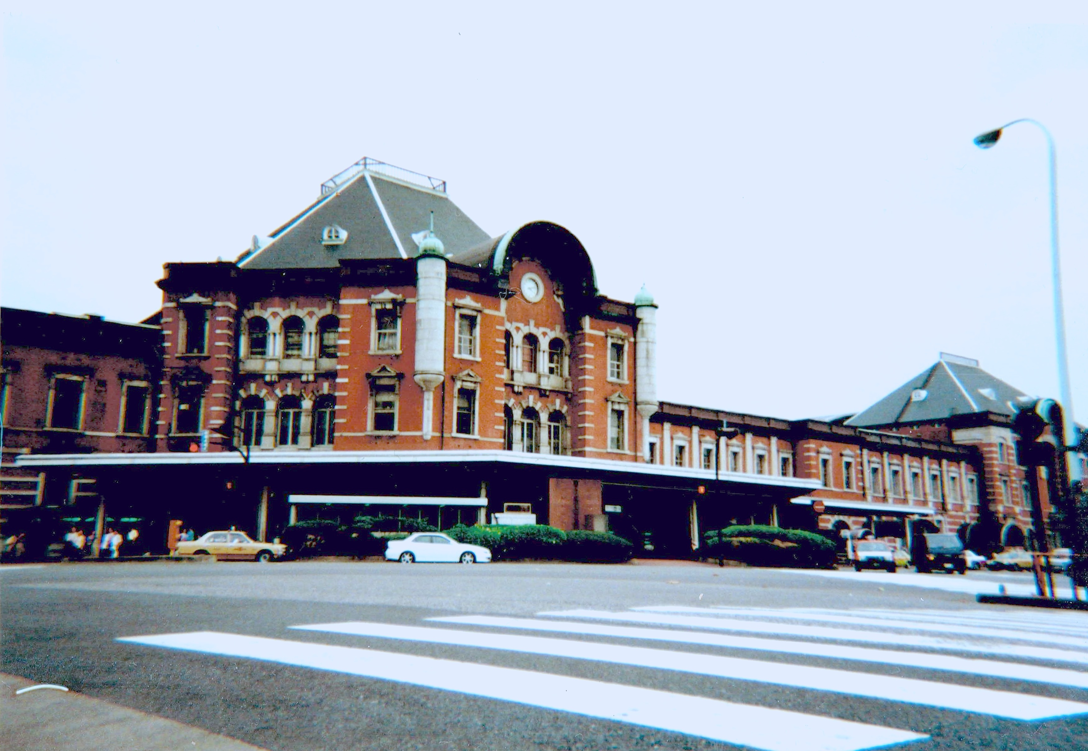 From my own personal archives; Tokyo station in the summer of 2000--- about a decade before renovation work.